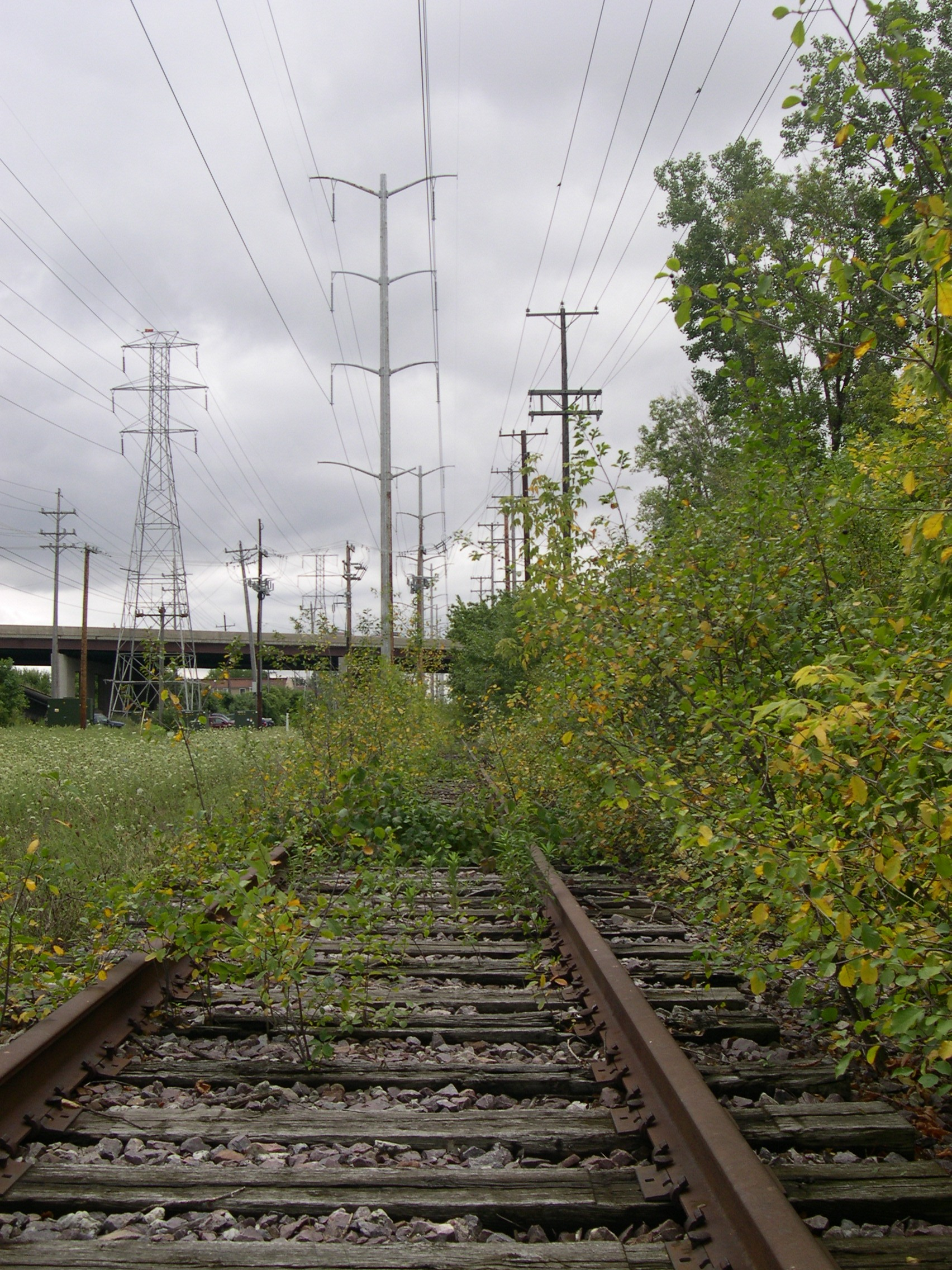 Skokie Valley’s deserted railroad, Skokie Valley’s electricity line and a bridge of the highway I-94. Skokie, Illinois, USA.